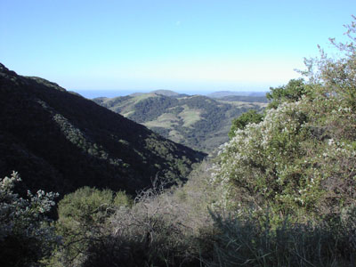 Gaviota State Park from Gaviota Peak Trail, California, USA. March 2002. Photo taken by Antandrus